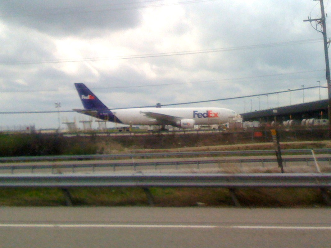 Golfj21,My Own Work